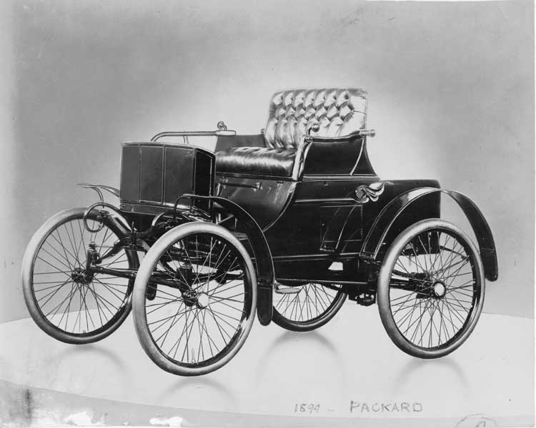 Packard Model A runabout (1899)